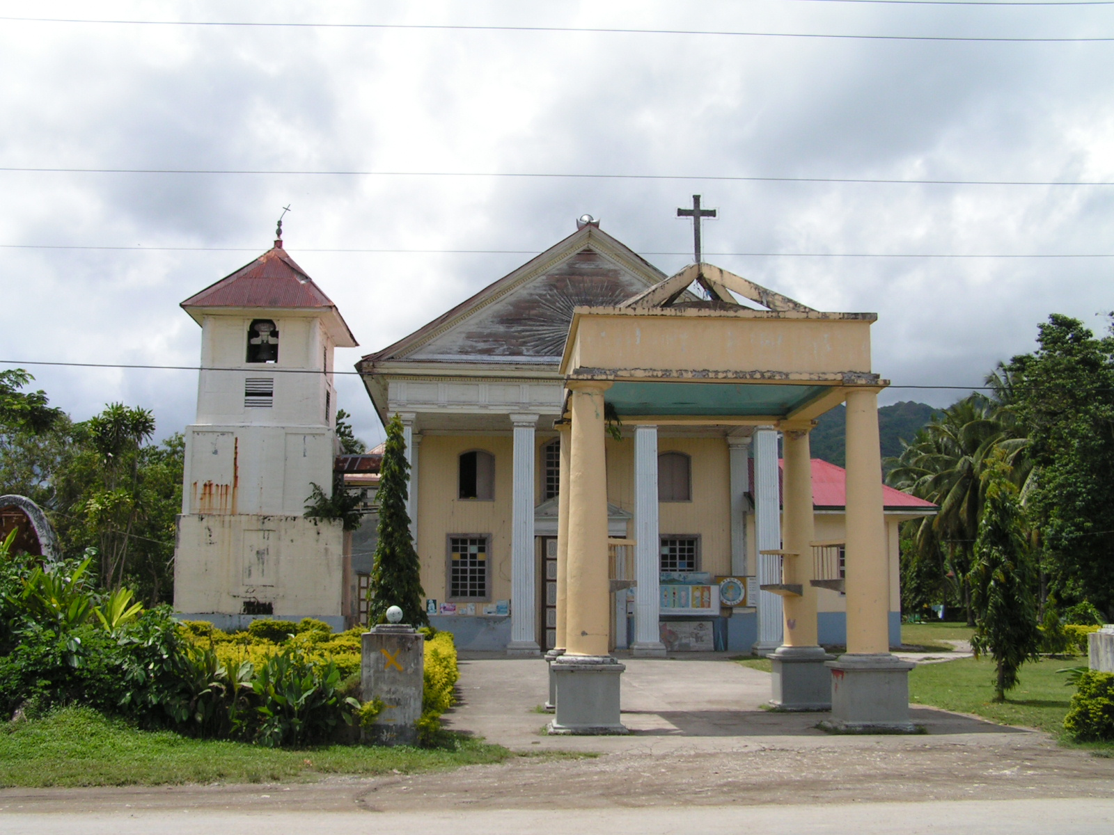 self-taken